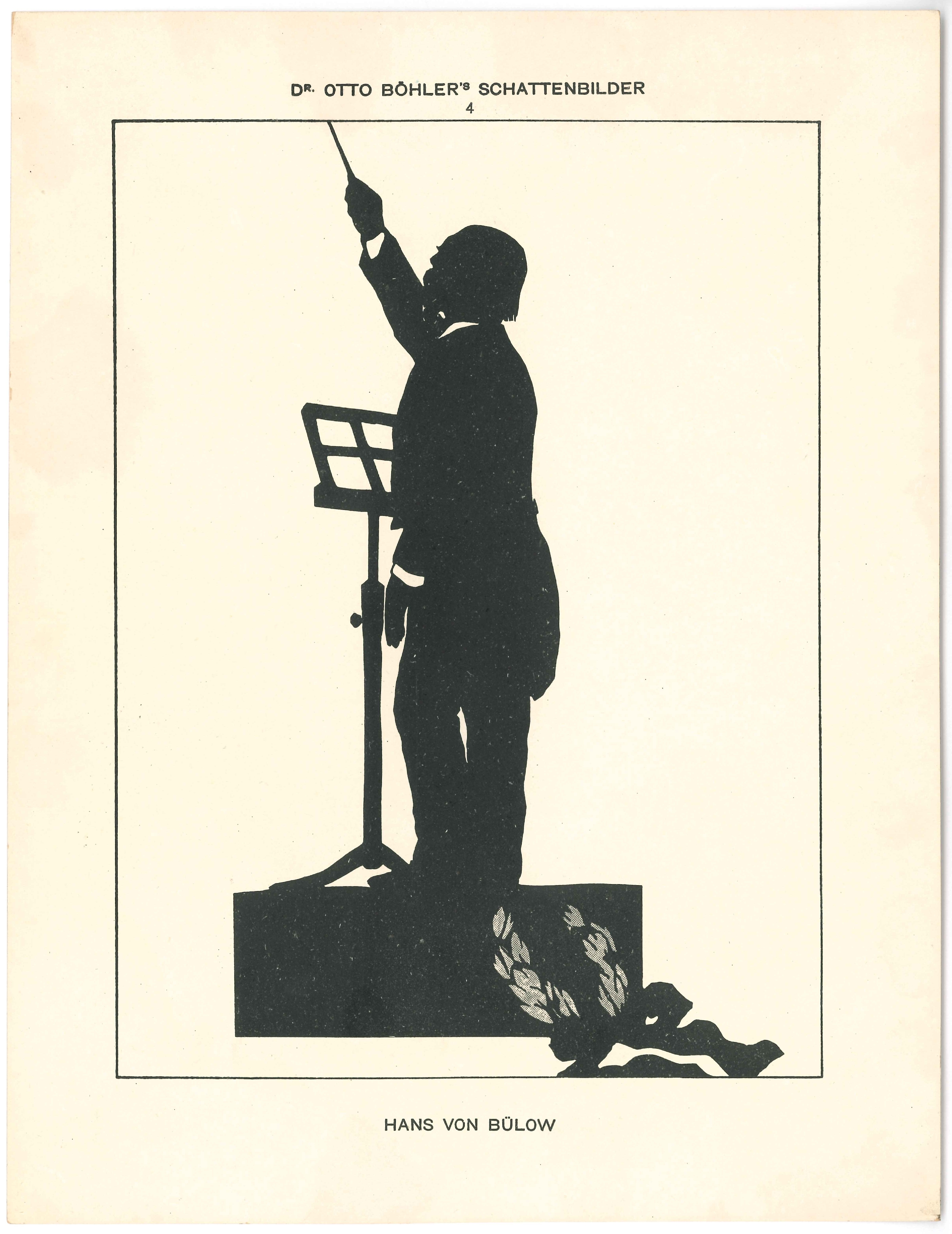 Hans von Bülow, silhouette 20 x 26 cm; photo of Böhler´s silhouette printed on thick card